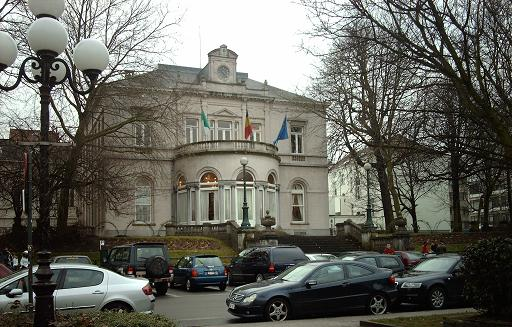 Town Hall Elsene~Ixelles (Brussels)